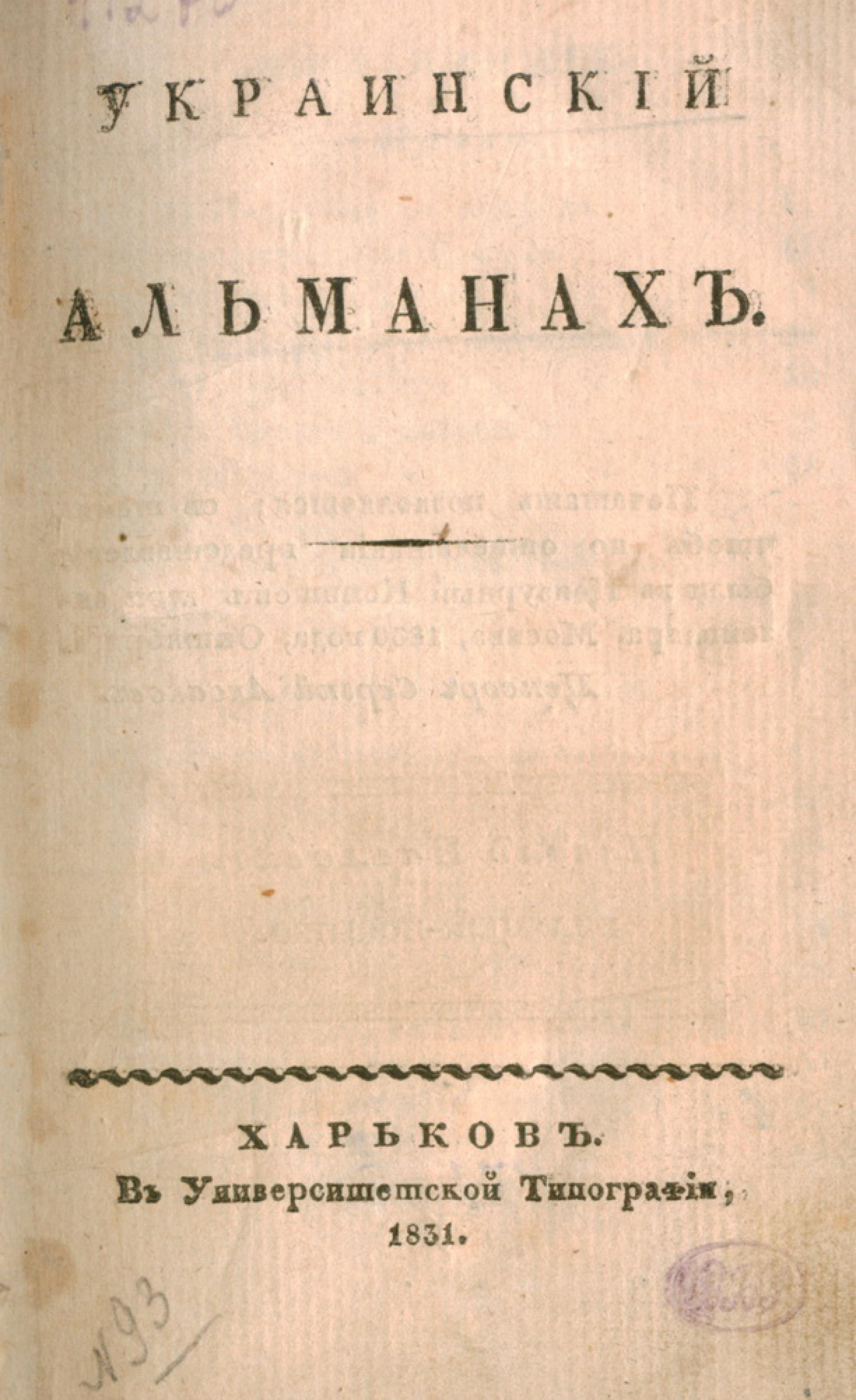 "Ukrainian аlmanac", 1831. Title sheet